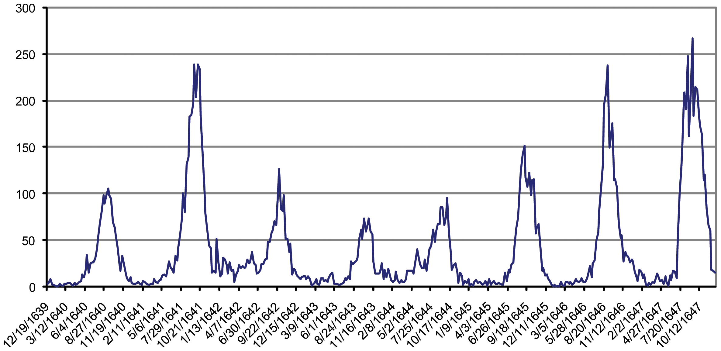 Annual Mortality Peaks Recorded in English “Bills of Mortality”: 1639–1647. Data depict an annual peak in mortality during the warmer months of the year. Only deaths specifically noted in the records as due to “plague” are included.